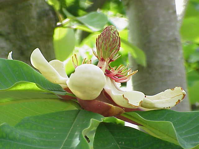 Magnolia obovata Family Magnoliaceae Image no. 1